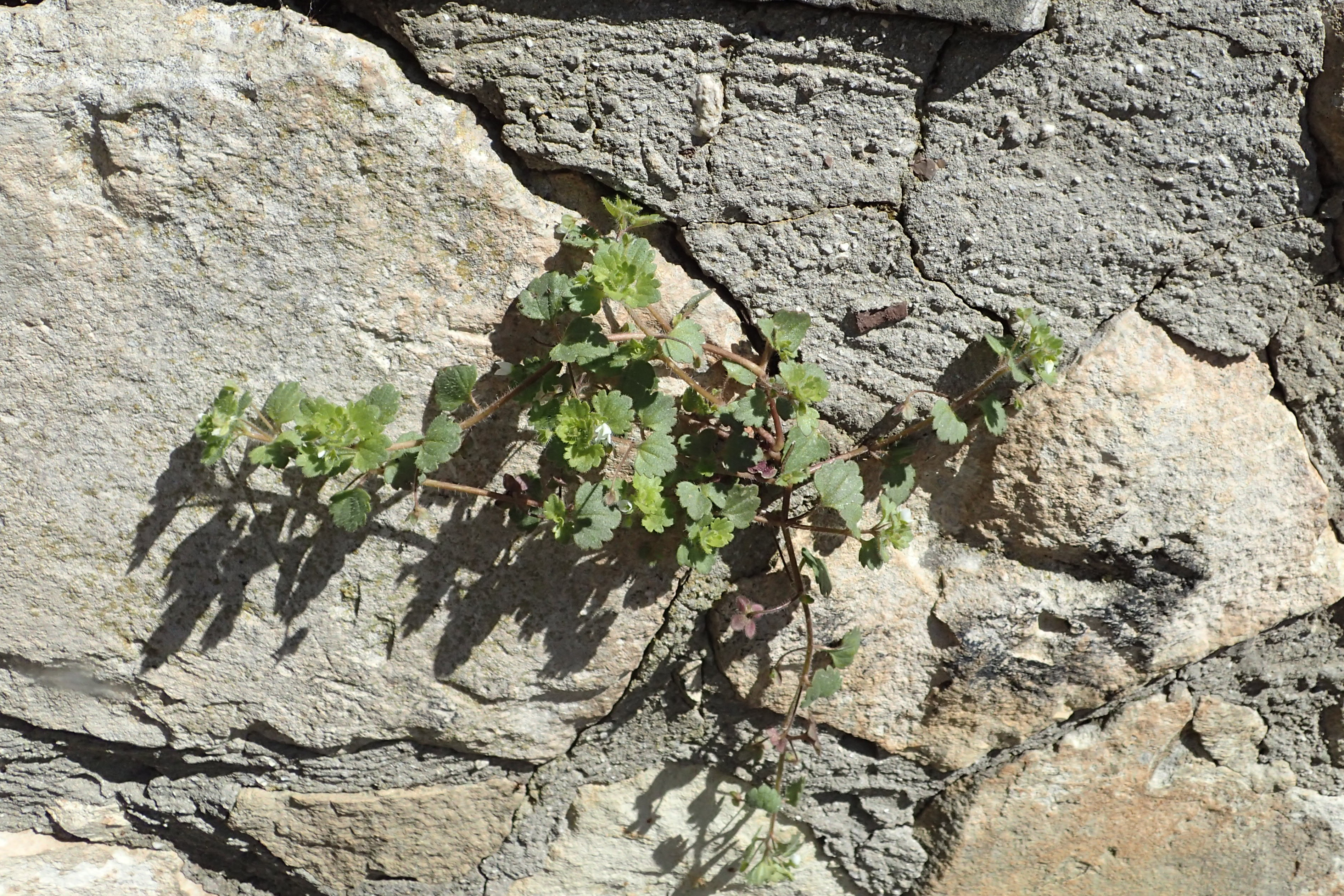 Veronica cymbalaria in Kato Arodes, Cyprus